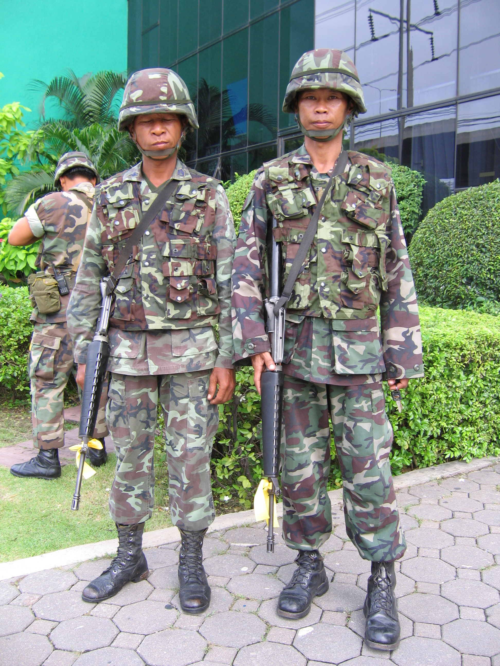 Two Royal Thai Army soldiers armed with M-16 rifles stand guard at the Nation Tower complex on Bang Na-Trad Highway following the 2006 Thailand coup d'état.